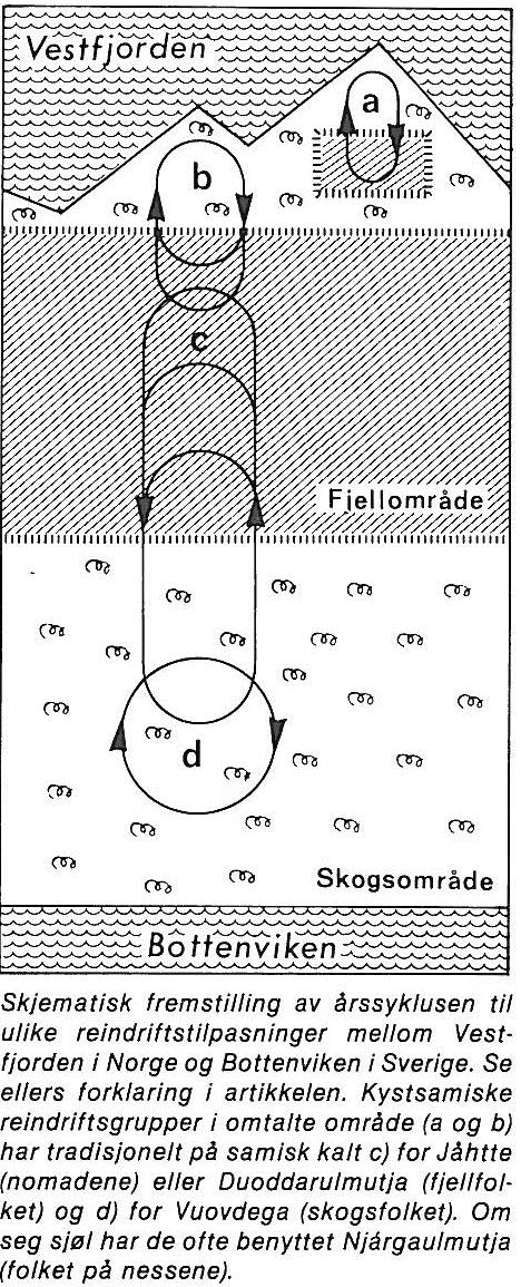 Different adaptions to traditional same reindeer herding; A and B showing coastal sami migration routes; C showing mountain sami magration; while D is woodland sami migration